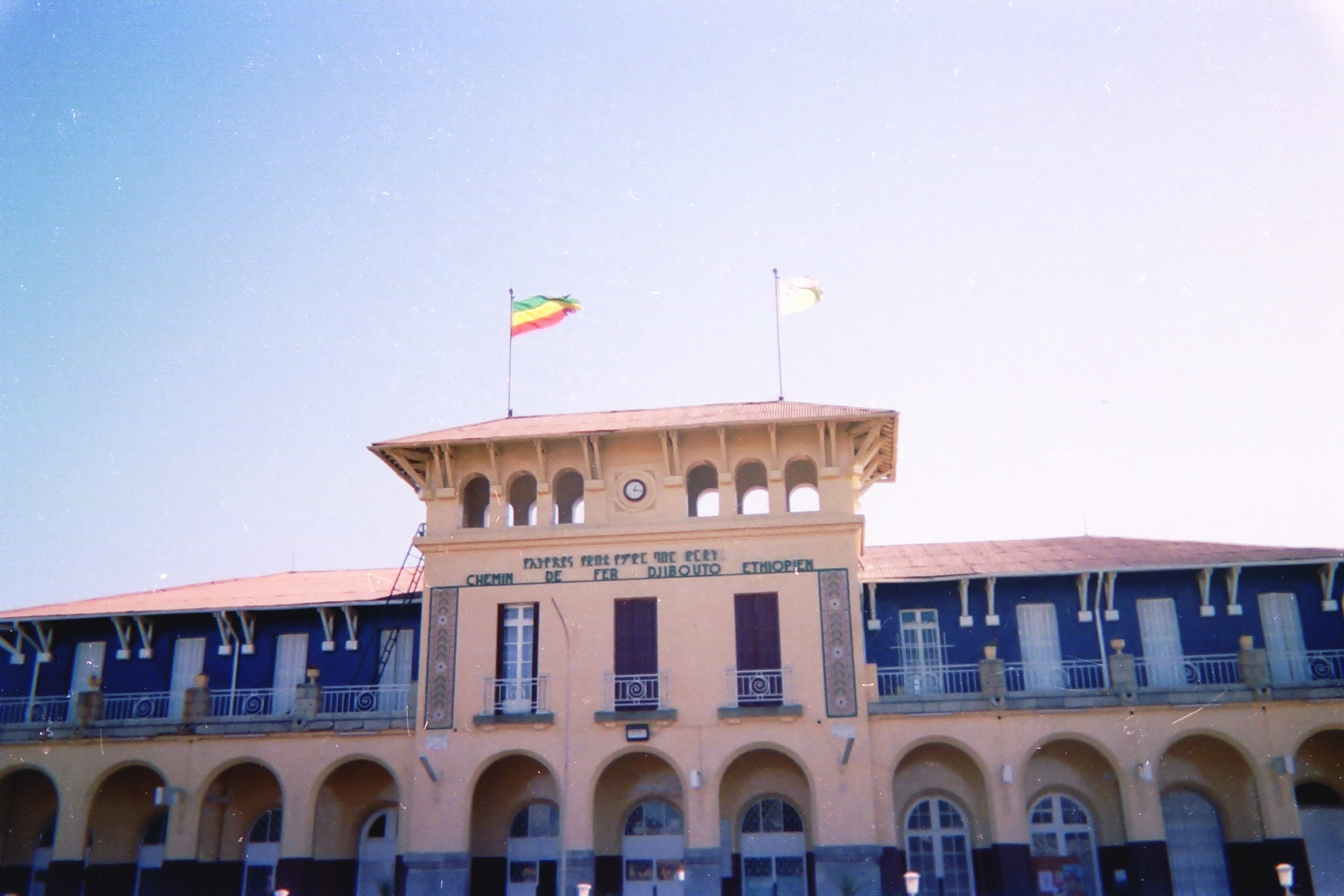 Central Station, Addis Abeba, Ethiopia.